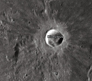 Dionysius lunar crater as seen from Earth with satellite craters labeled